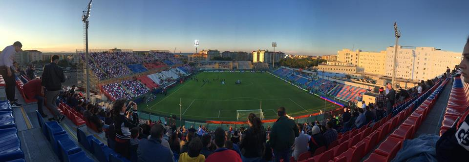 PANORAMIC VIEW EZIO SCIDA